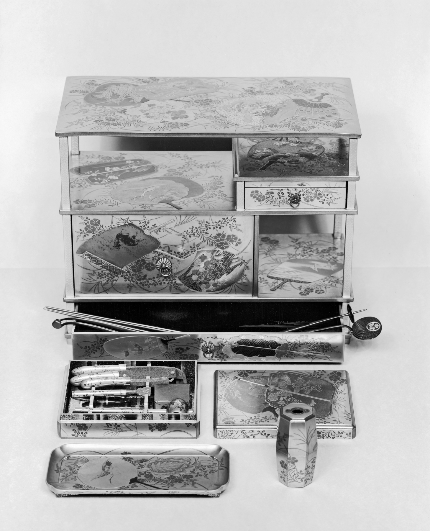 This "ko-awase-dogu-dana" or cabinet for the incense game is gold lacquer and has three shelves and three drawers containing six copper implements, a brocade bag with ten paper envelopes, a small tray, a rectangular box, and a box for the counters. The cabinet has a design of leaf-shaped fans on a background of flowers of various kinds. The fans are elaborately decorated with tortoises, birds, flowers, and the scenery of Fujisan, with winding streams, etc. The interior of the lower drawer is decorated with clouds. The rectangular tray for incense ("Koban") is of gold lacquer and rests on four low feet. It has a slightly raised rim and indented corners. The interior of the tray is decorated with two overlaping fans, one with a flying crane and the other with a feather pattern. Both appear against a floral background. The rectangular box for the set of implements for cutting incense wood ("Kowari-dogu") is of gold lacquer with an interior frame for a saw, knife, chisel, mallet, and chopping block. The instruments are of steel with lacquered handles. The top of the lid is decorated with two overlaping leaf-shaped fans, one with a heron, and the other with a butterfly and flowers. Both fans appear against a background of pampas grass, pinks, and bush-clovers; theis same floral design continues on the exterior sides of the box. The interior lid has layers of clouds. The box for counters for the incense game ("Fuda-bako") is gold lacquer, octagonal and barrel-shaped. The upper half of the box has an oval opening cut out and is rimmed with metal. The exterior is decorated with pinks, bush-clovers, and pampas grass.